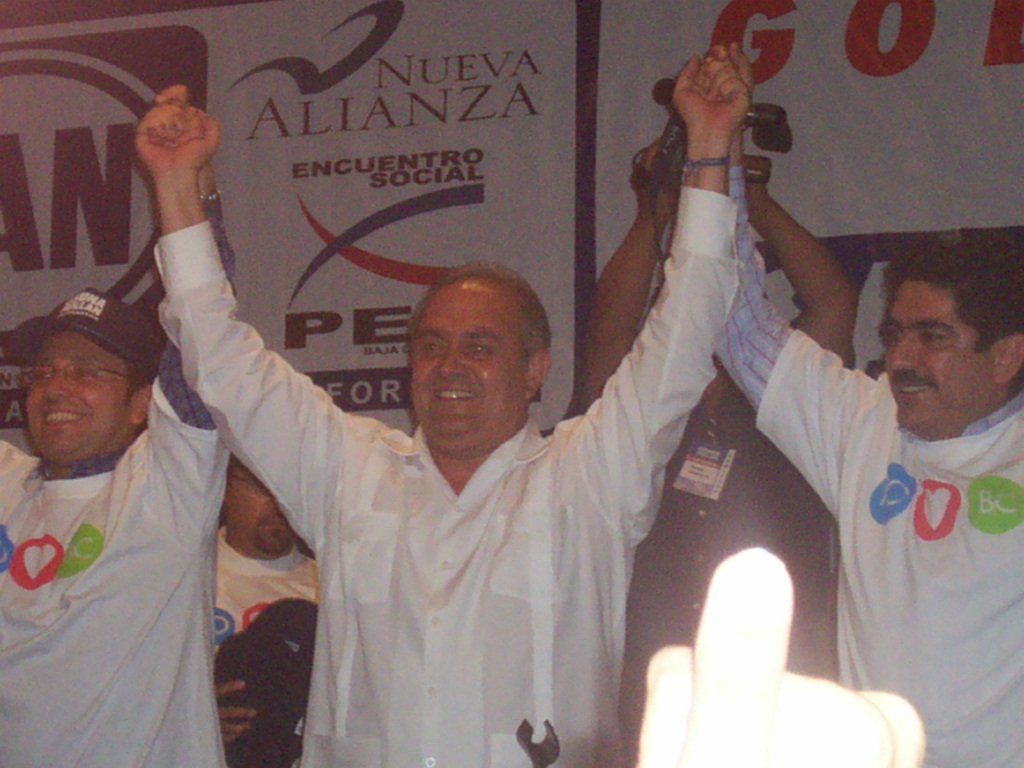 José Guadalupe Osuna Millán is proclamated the winning candidate by the National Action Party President. He's running for the governor's office.